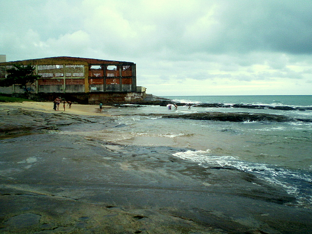 turkish basin beach